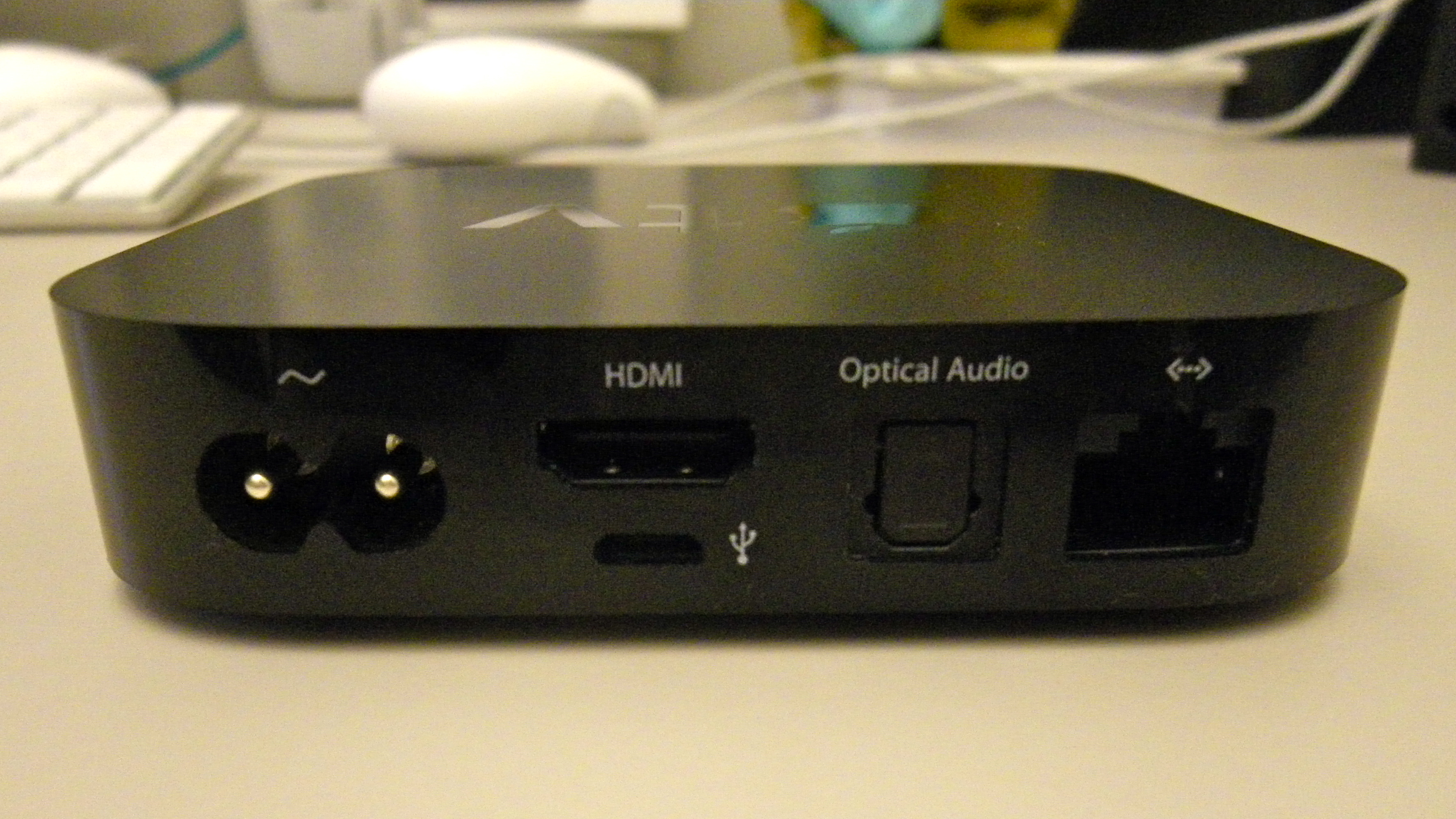 The new, second-generation Apple TV. This is now released, shipping product which is in customers' hands.